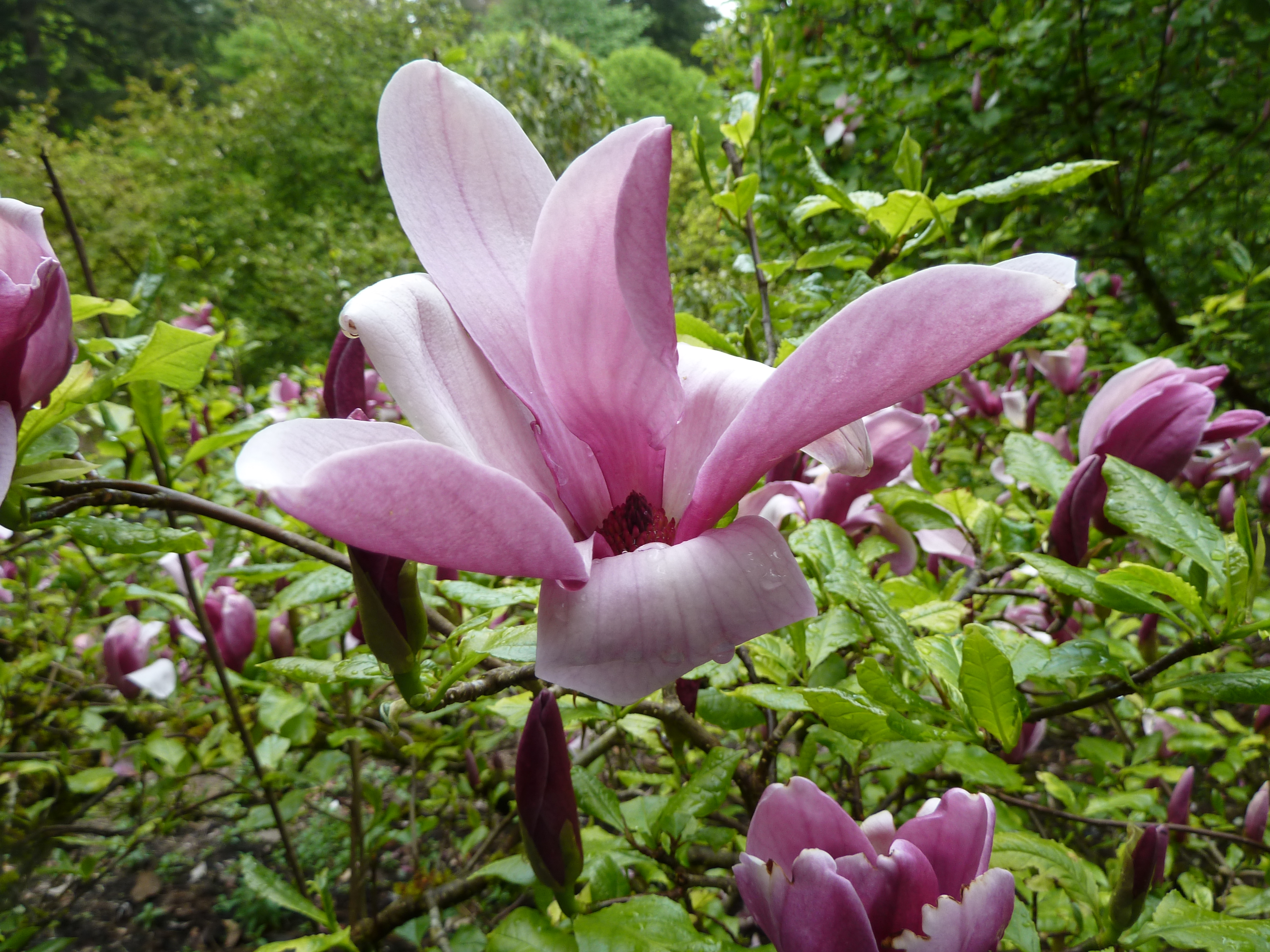 Magnolia Liliiflora 'O'Neill' at Hoyt Arboretum in Portland, OR